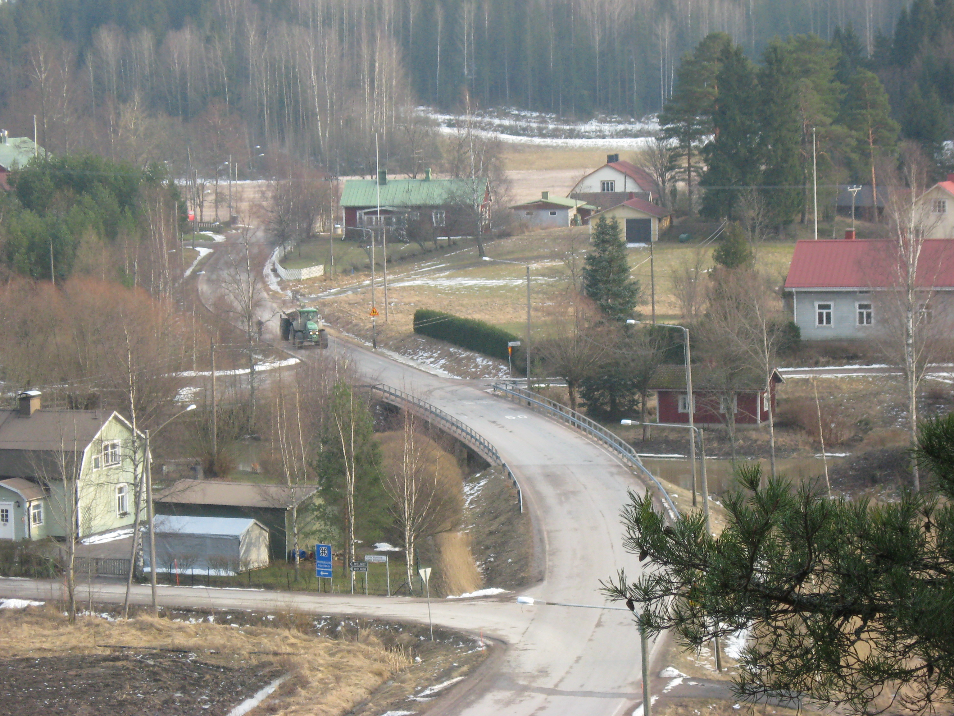 Ilola, Porvoo, Finland